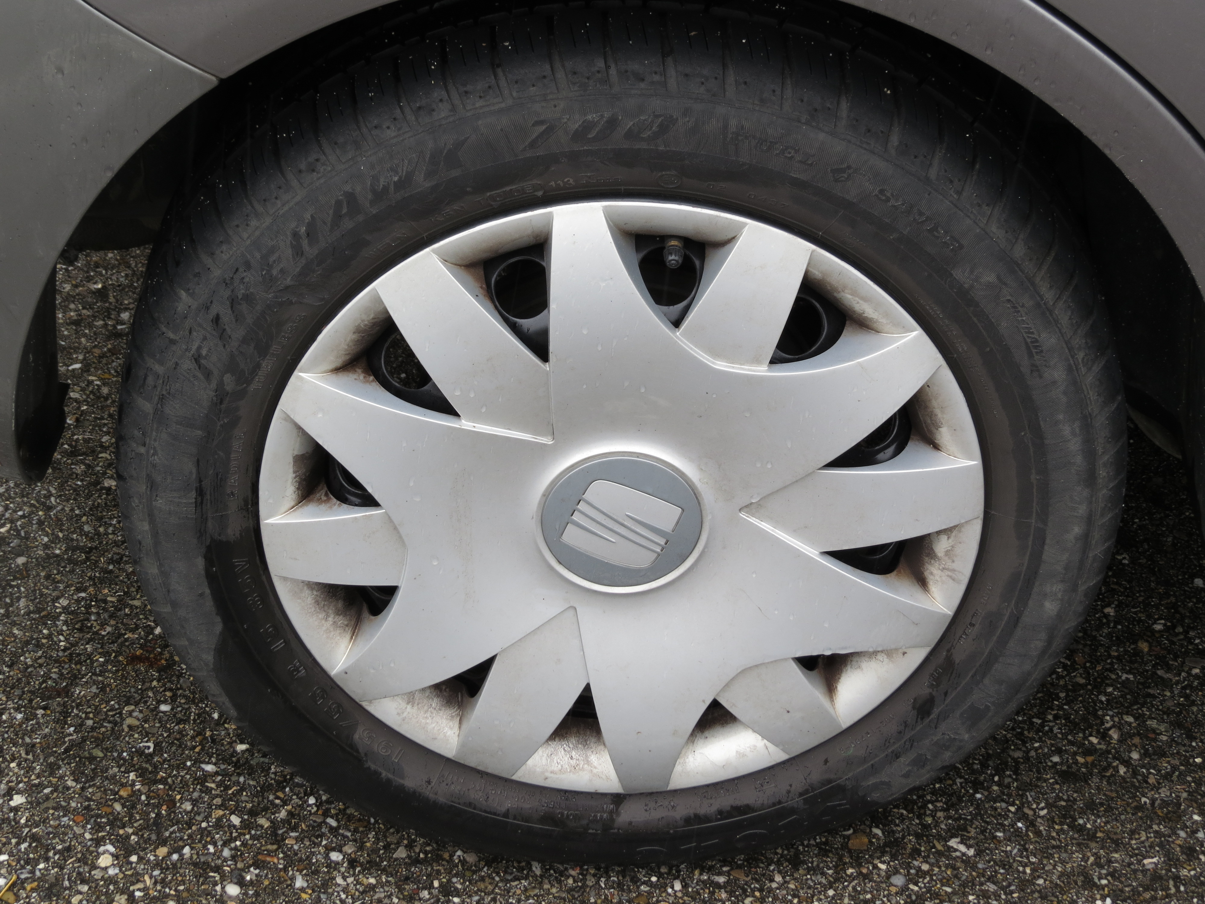 Firestone Firehawk 700 195/55 R 15 85 V tire and Seat Hubcaps at Bahnhof Melk